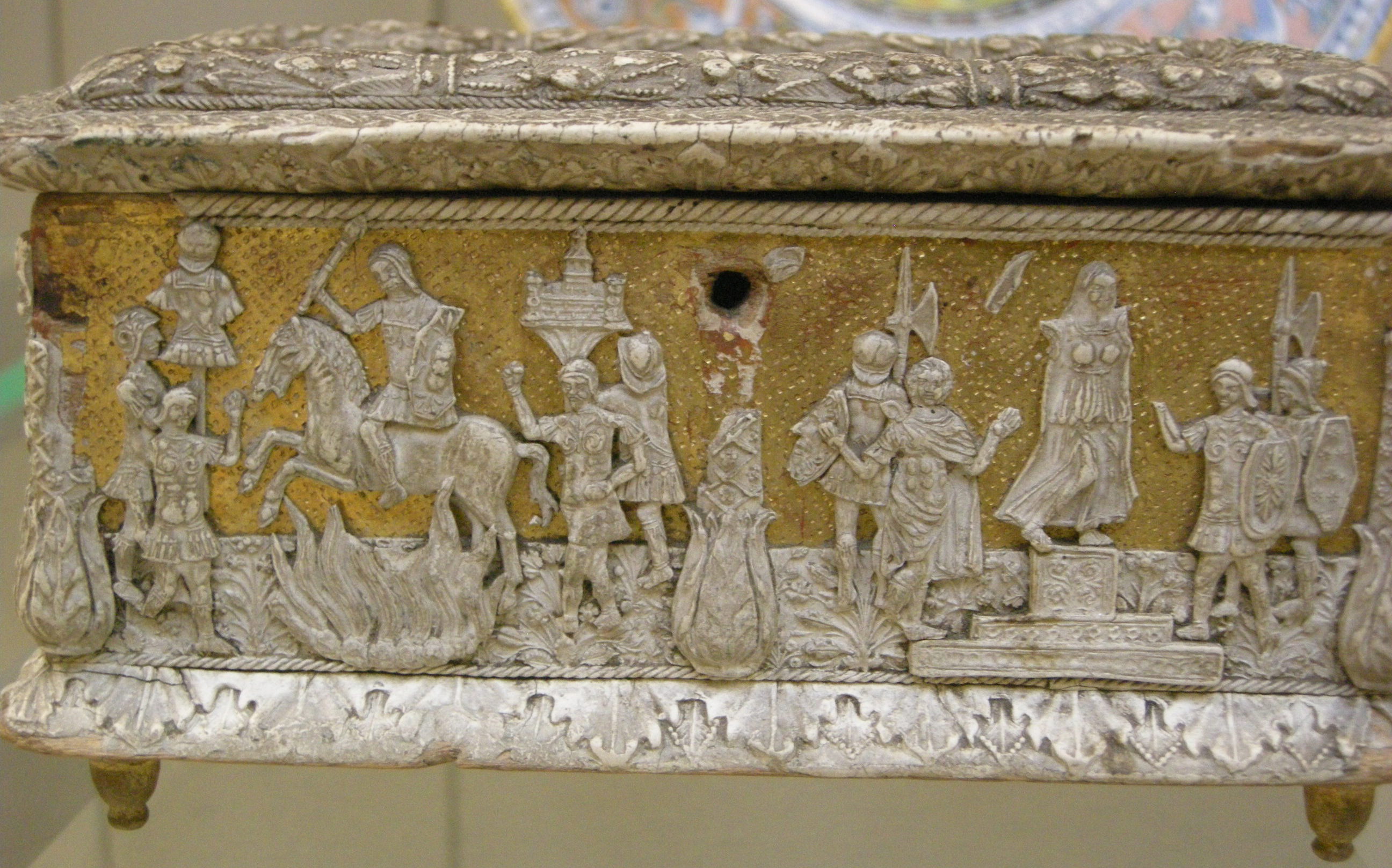 see filename British Museum page